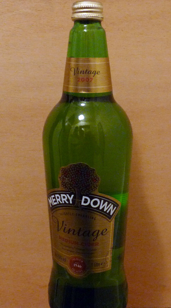 one-litre bottle of Merrydown Gold Label Medium Cider